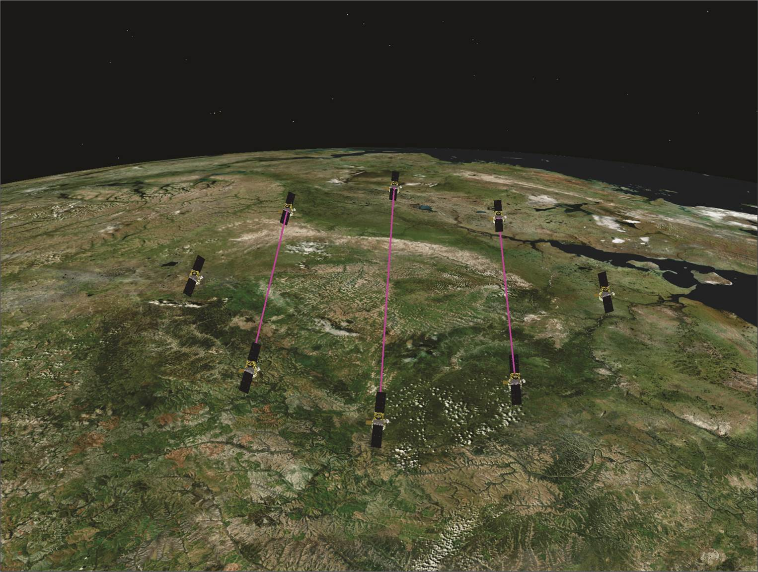 PLT LEO Formation Flying Picture